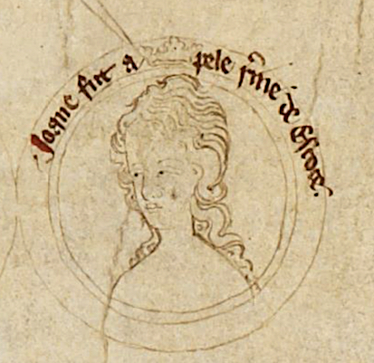 Princess Joan of the Tower, Queen of Scotland